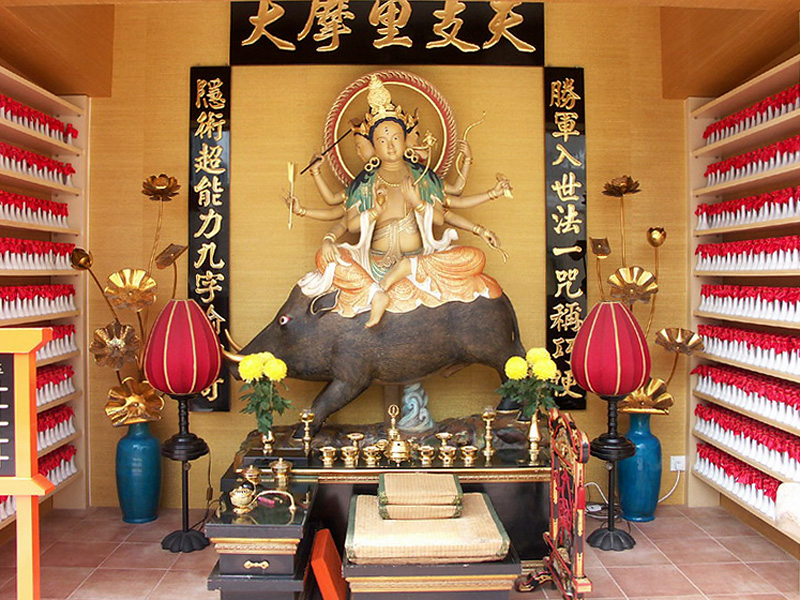 Photo of the Buddhist goddess Marici at the Hong Fa Shan Esoteric Buddhist Temple in Hong Kong.